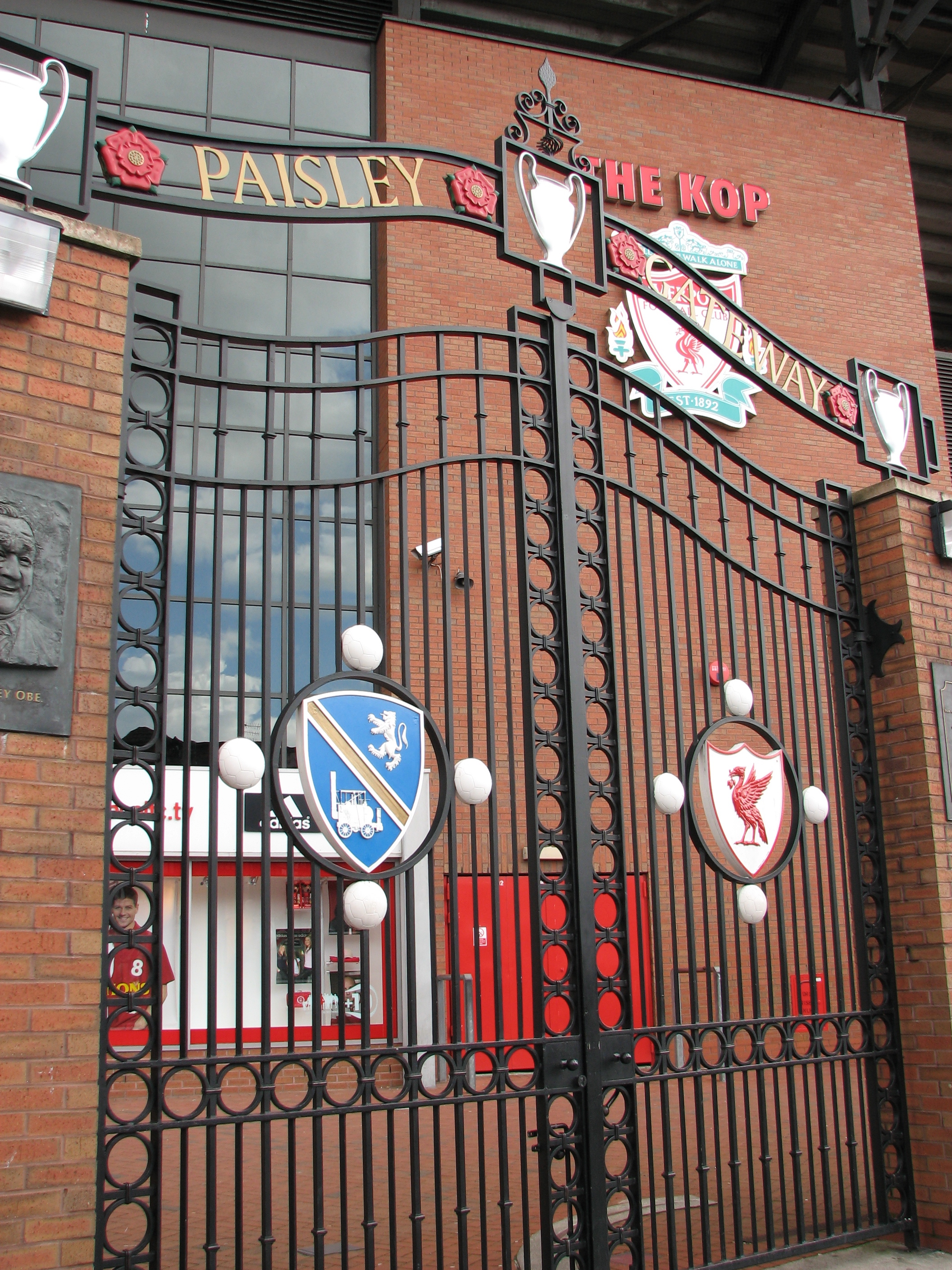 The Paisley Gateway in front of The Kop stand at Anfield